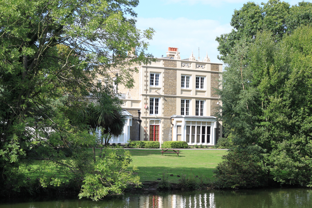 Sidcup